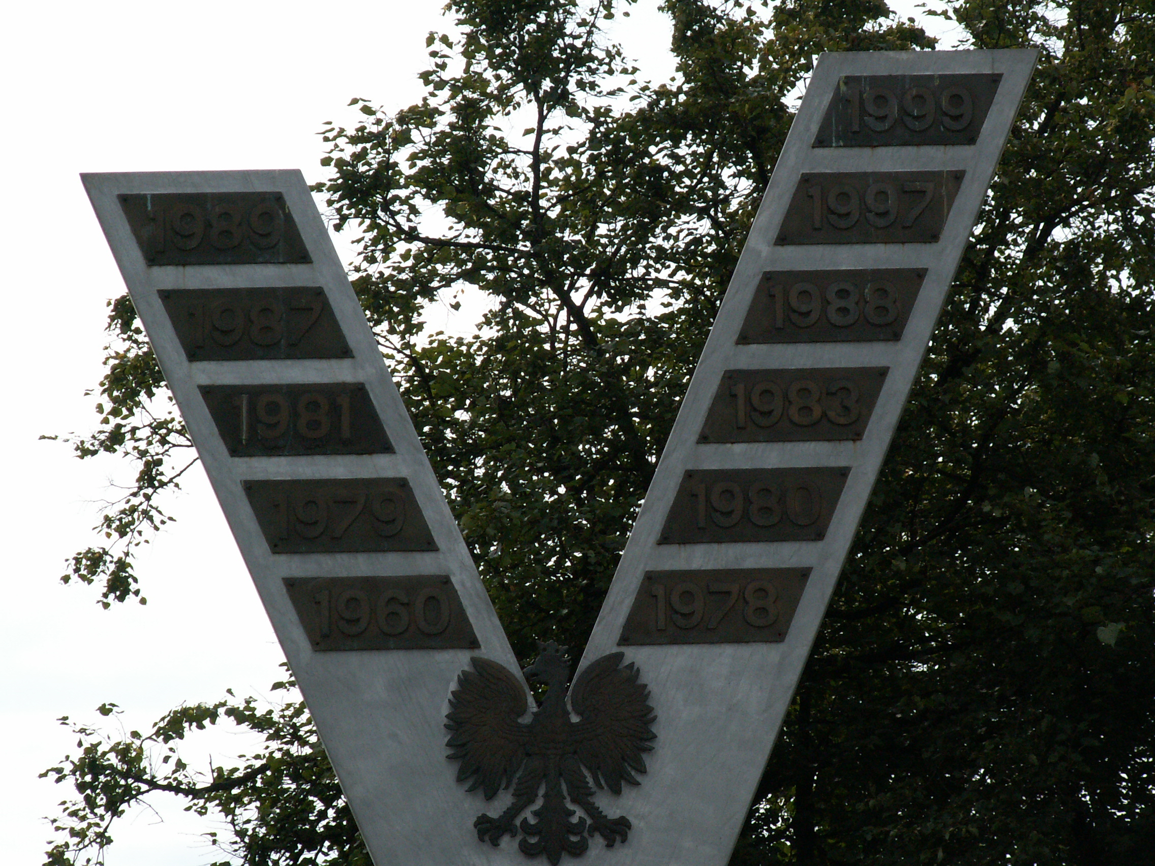 Solidarity Memorial (V),Nowa Huta, Centralny square, Krakow, Poland